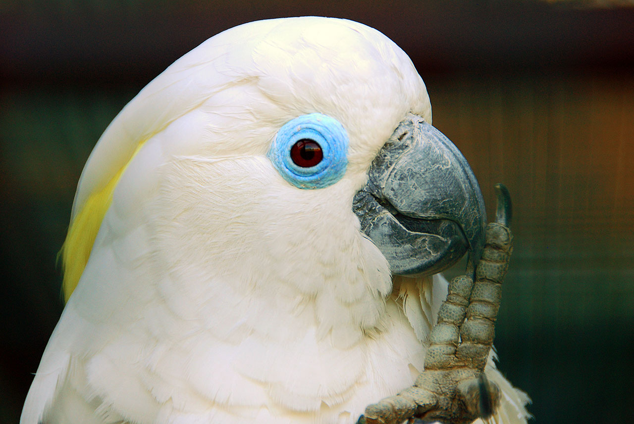 Blue-eyed Cockatoo at Walsrode Bird Park, Germany.